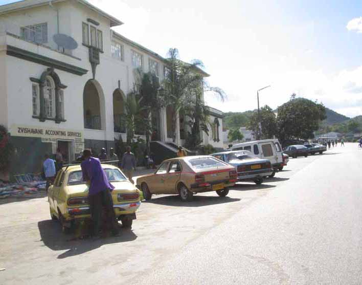 Zvishavane, main street.